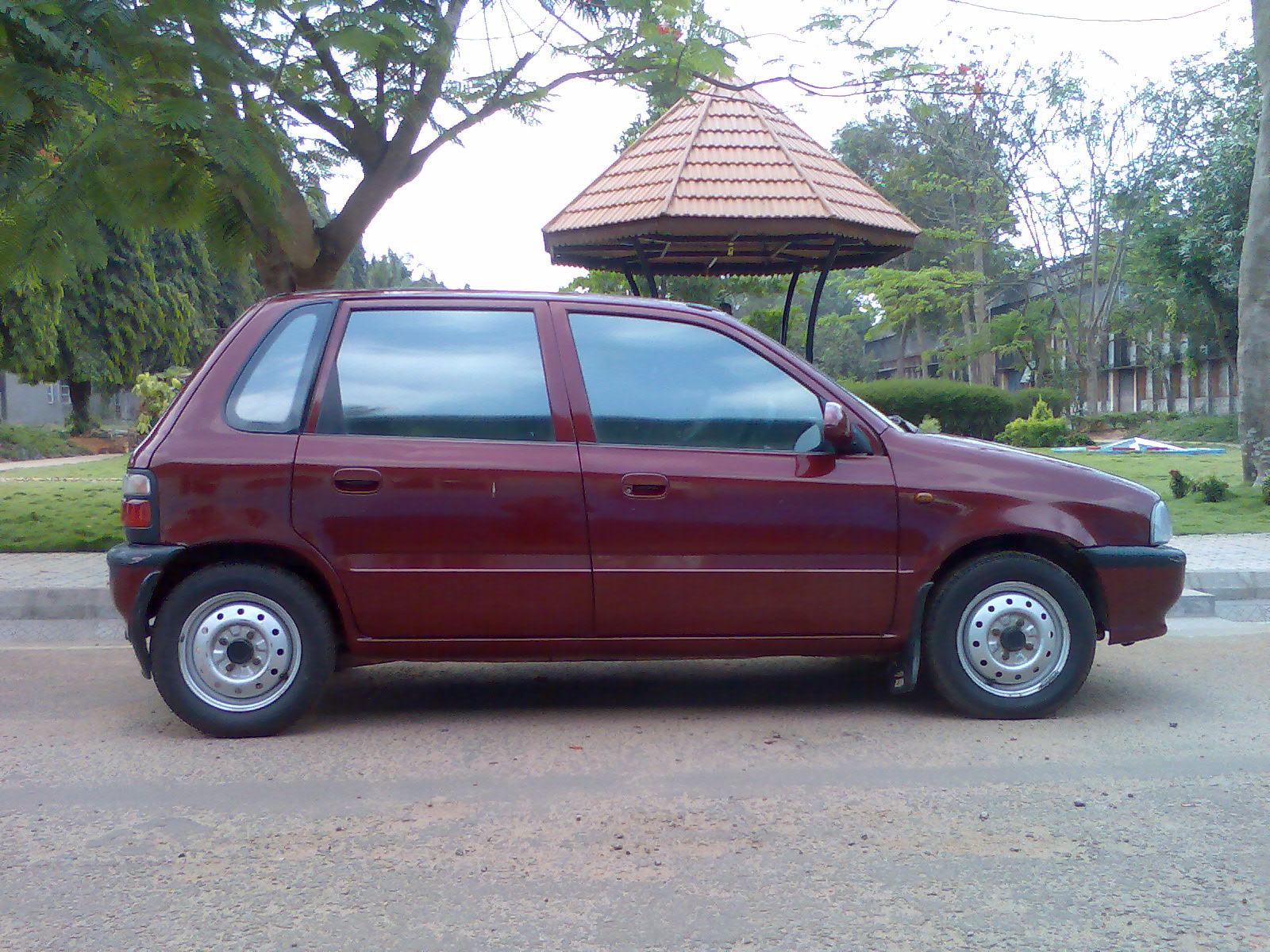 1993 Maruti Suzuki Zen